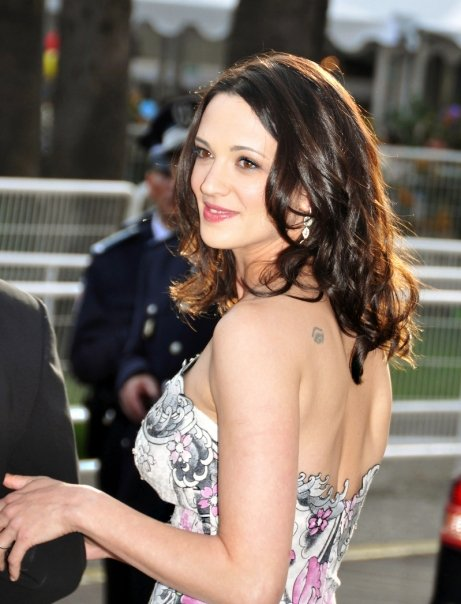 Asia Argento at the Cannes film festival